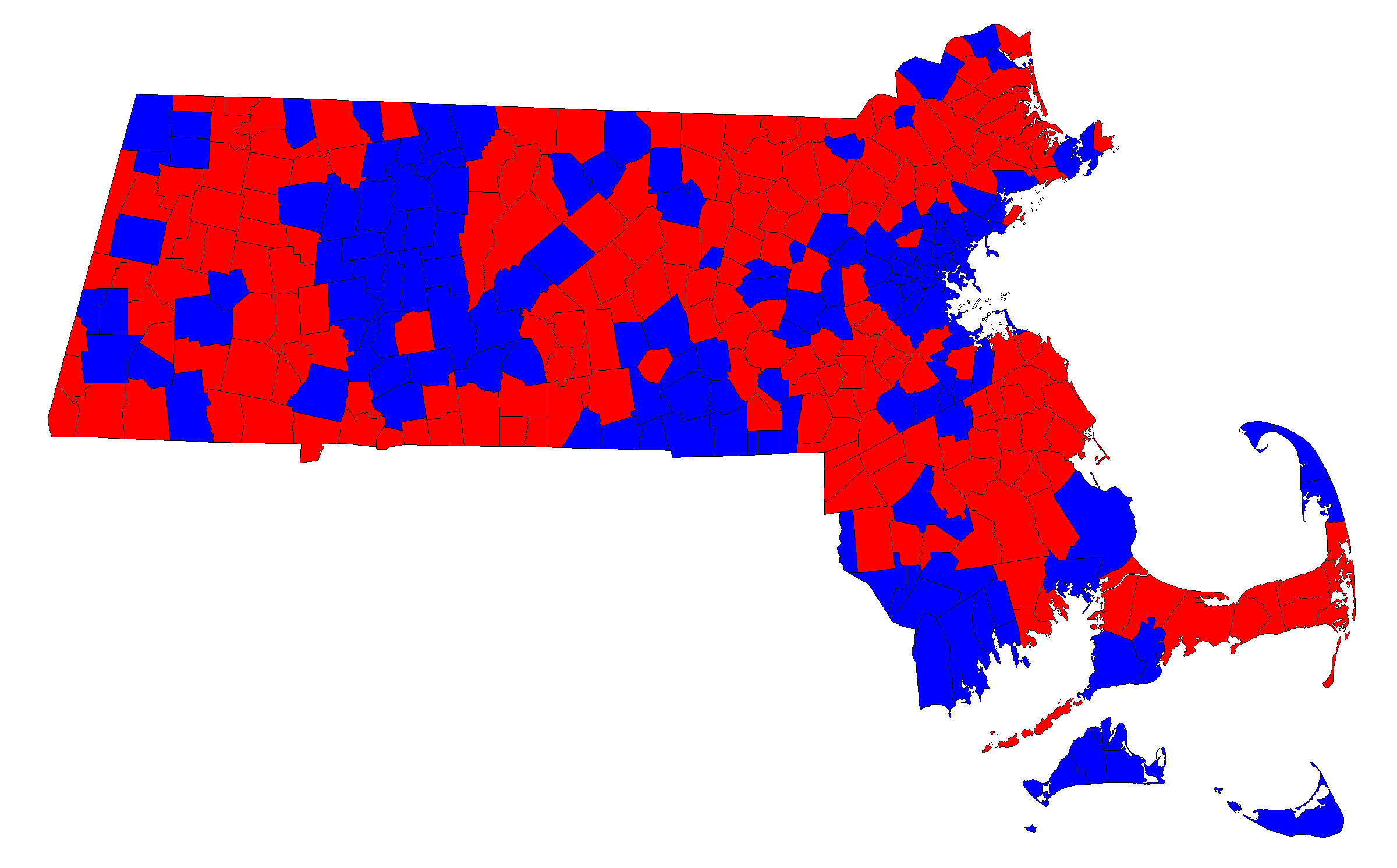 Results of the 1984 United States Senate election in Massachusetts. Towns in blue won by Kerry, red by Shamie. Data procured at